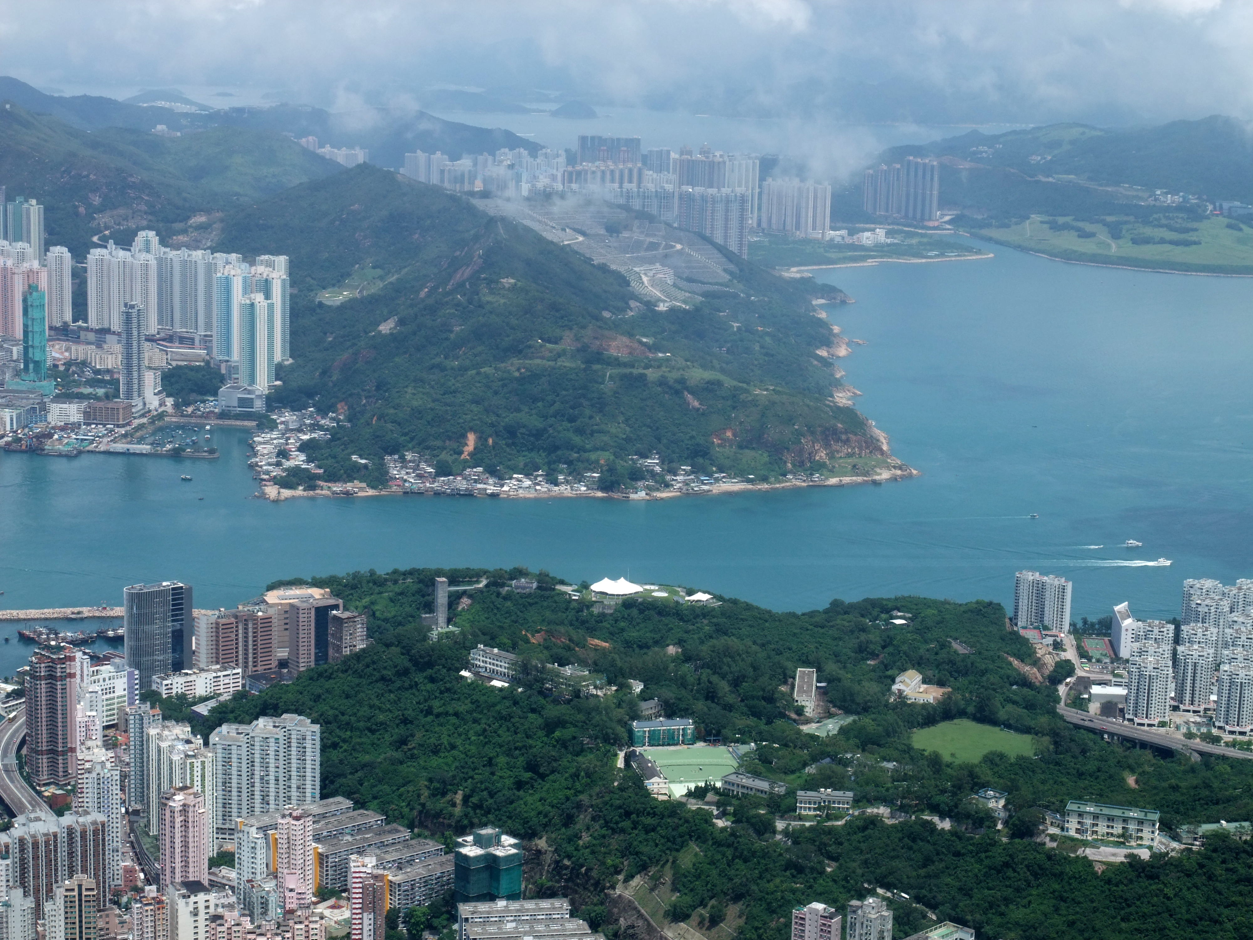 Photo of Lei Yue Mun